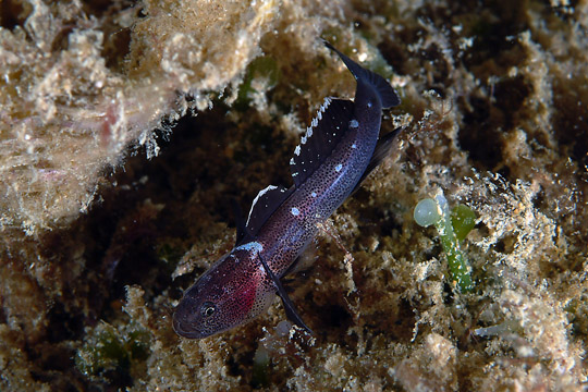 Didogobius schlieweni photographed near Tuscany coast (Italy). Photo by Stefano Guerrieri